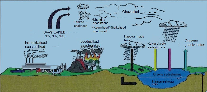 Lämmastiku saasteringe looduses.